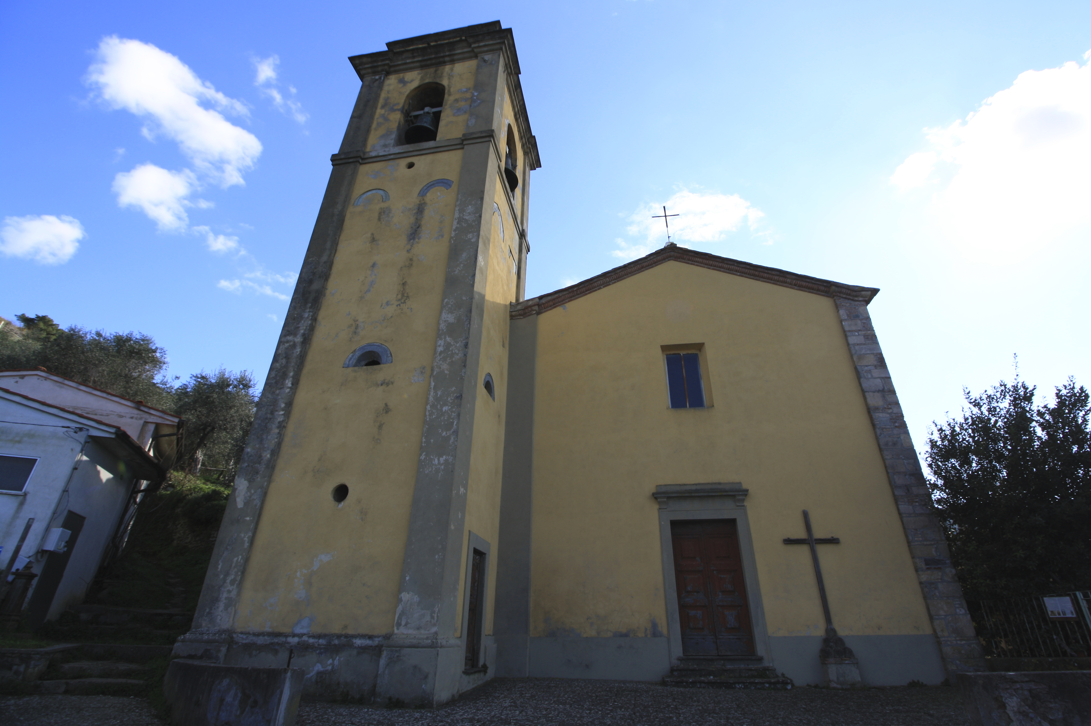 Santa Maria ad Nives, Church in Montemagno, hamlet of Calci, Province of Pisa, Tuscany, Italy